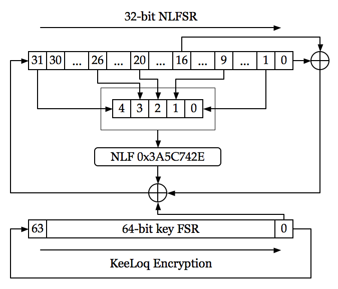 KeeLoq picture